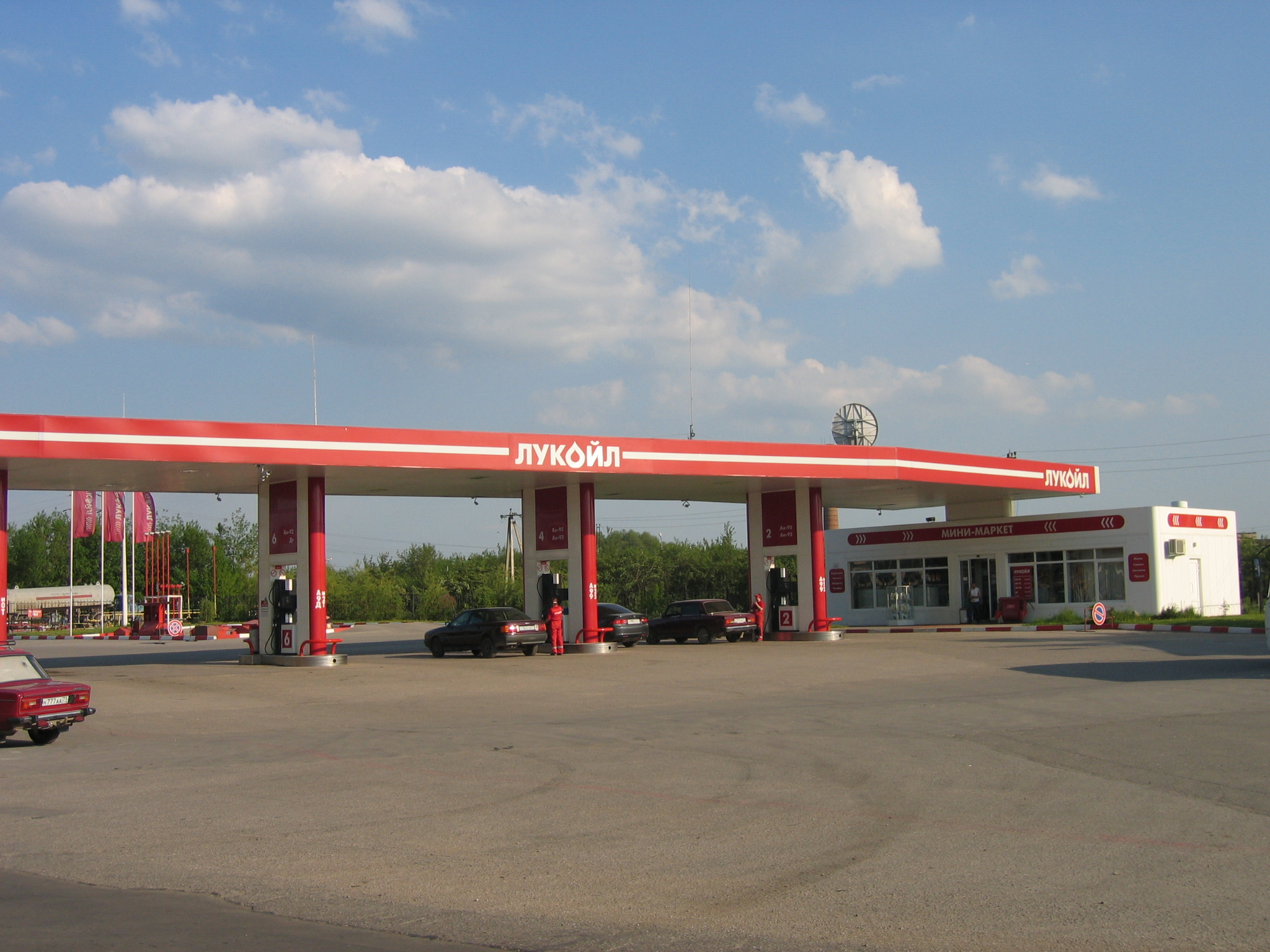 Lukoil petrol station, Tula